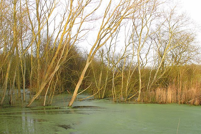 Old peat workings Old peat extraction areas on the Somerset Levels are now becoming flooded and allowed to 'return to nature'.